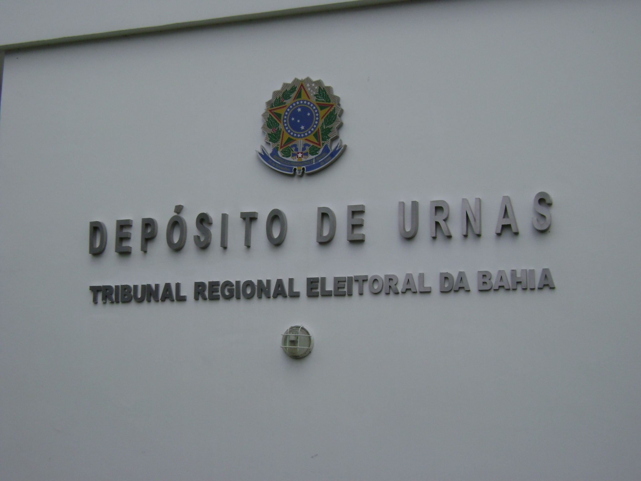 Inscrição do depósito de urnas do Fórum Eleitoral da Bahia, em Feira de Santana.